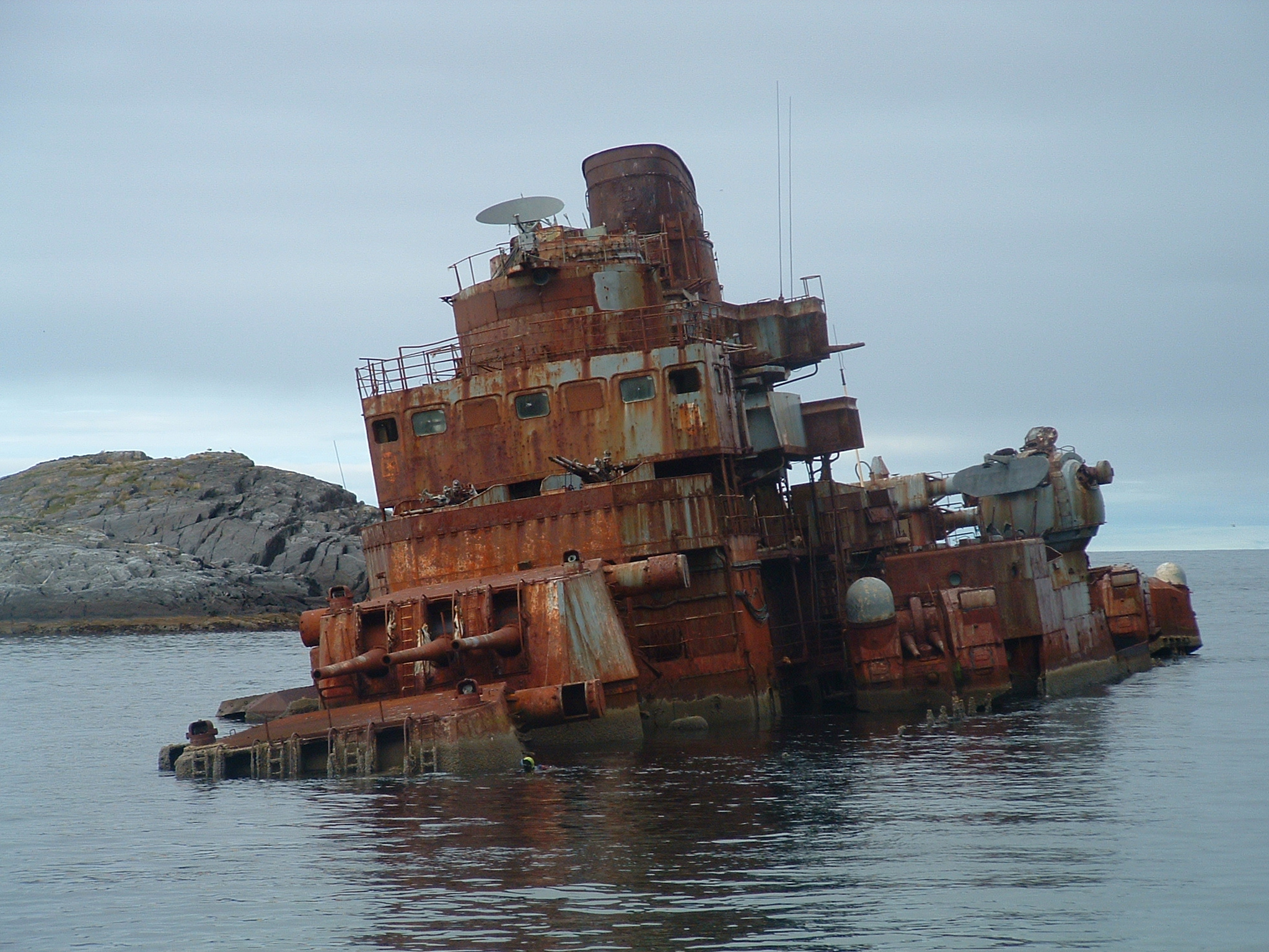 The Murmansk wrecked cruiser before being dismantled and salvaged.